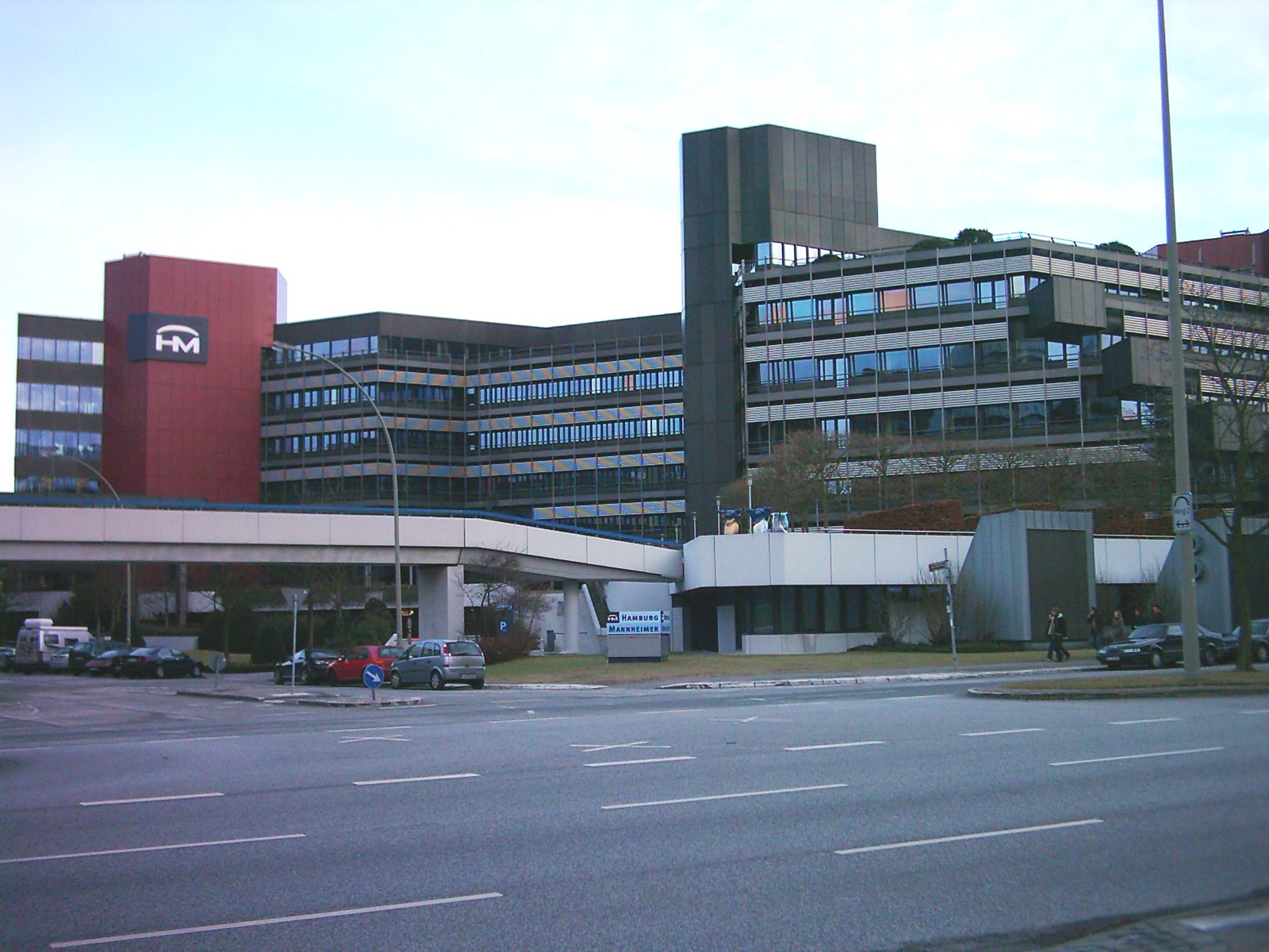 Head Office of Hamburg-Mannheimer (now: ERGO) in Hamburg, Germany.